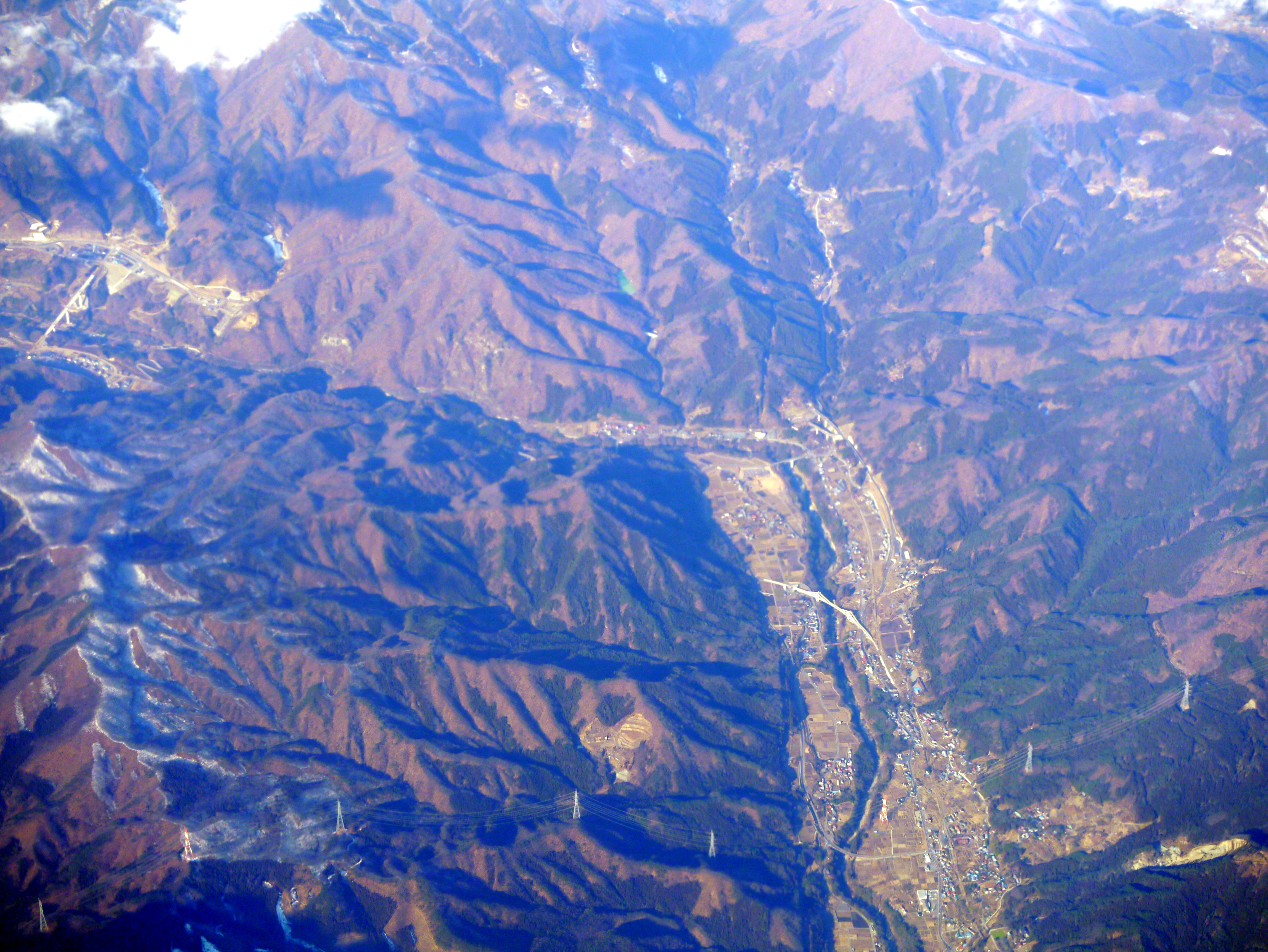 Agatsuma Gorge (Higashiagatsuma, Gunma).